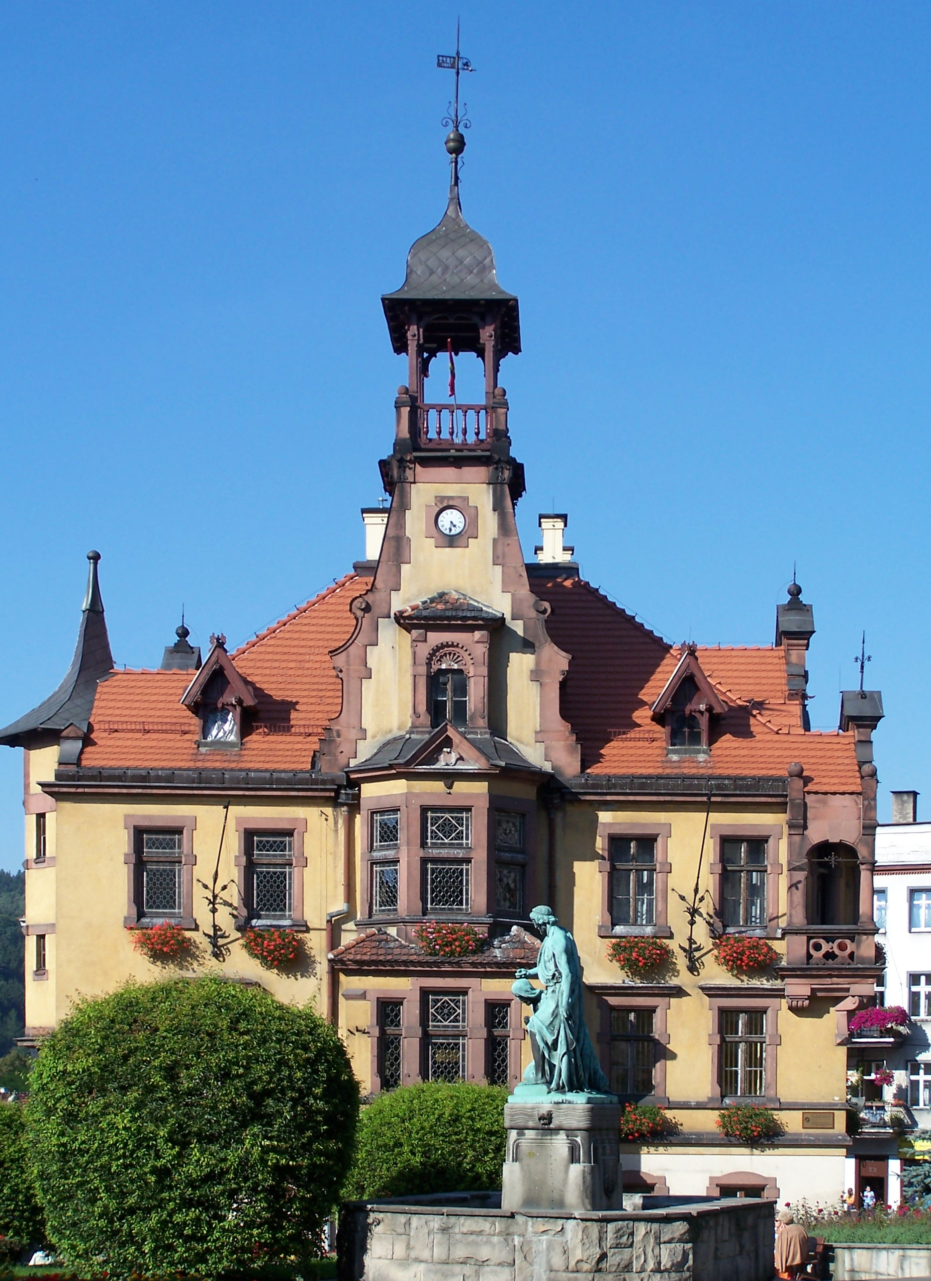 Nowa Ruda - Town Hall